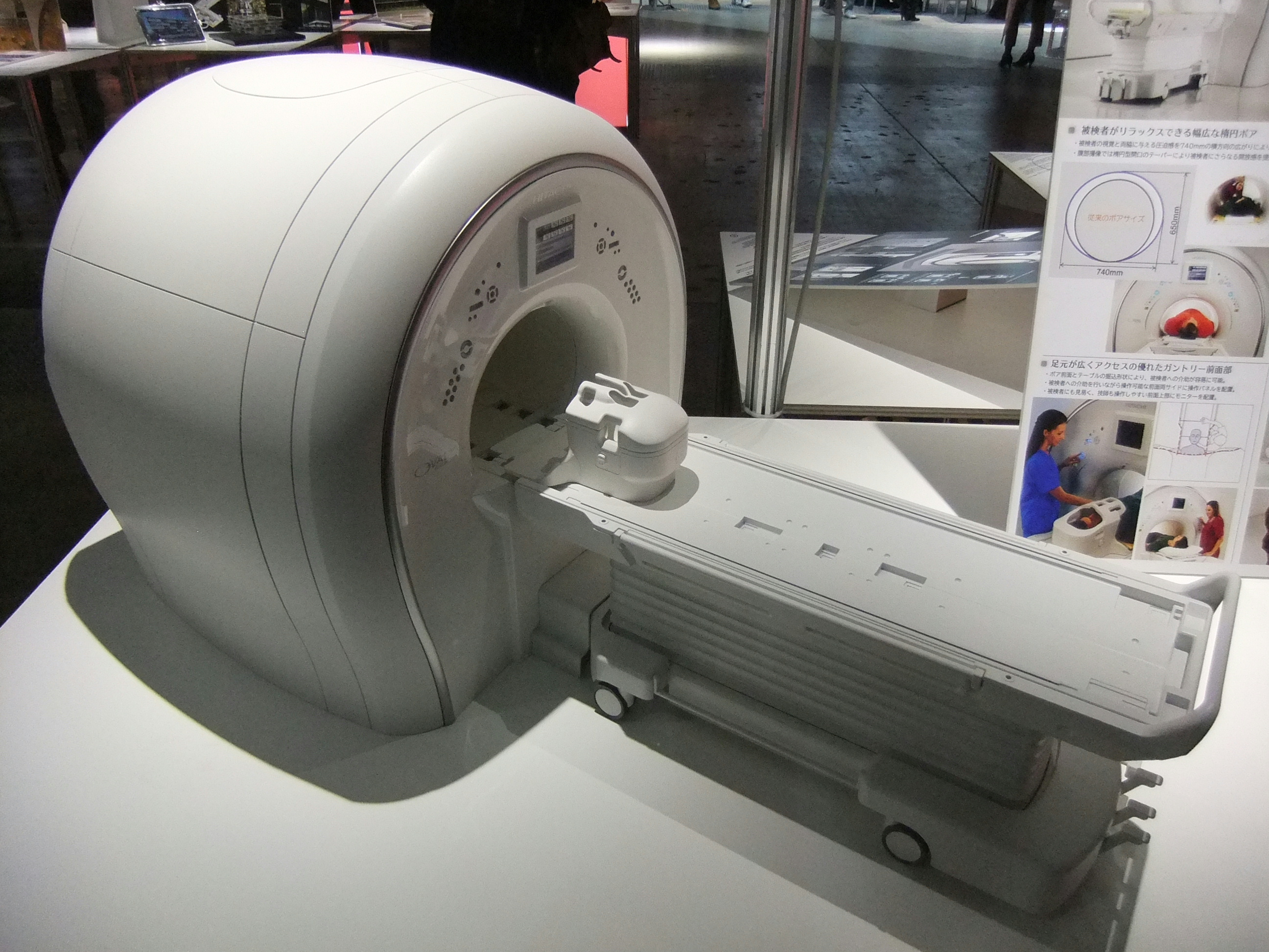 MRI ECHELON OVAL manufactured ​​by Hitachi Medical Corporation. Good Design Award 2012.